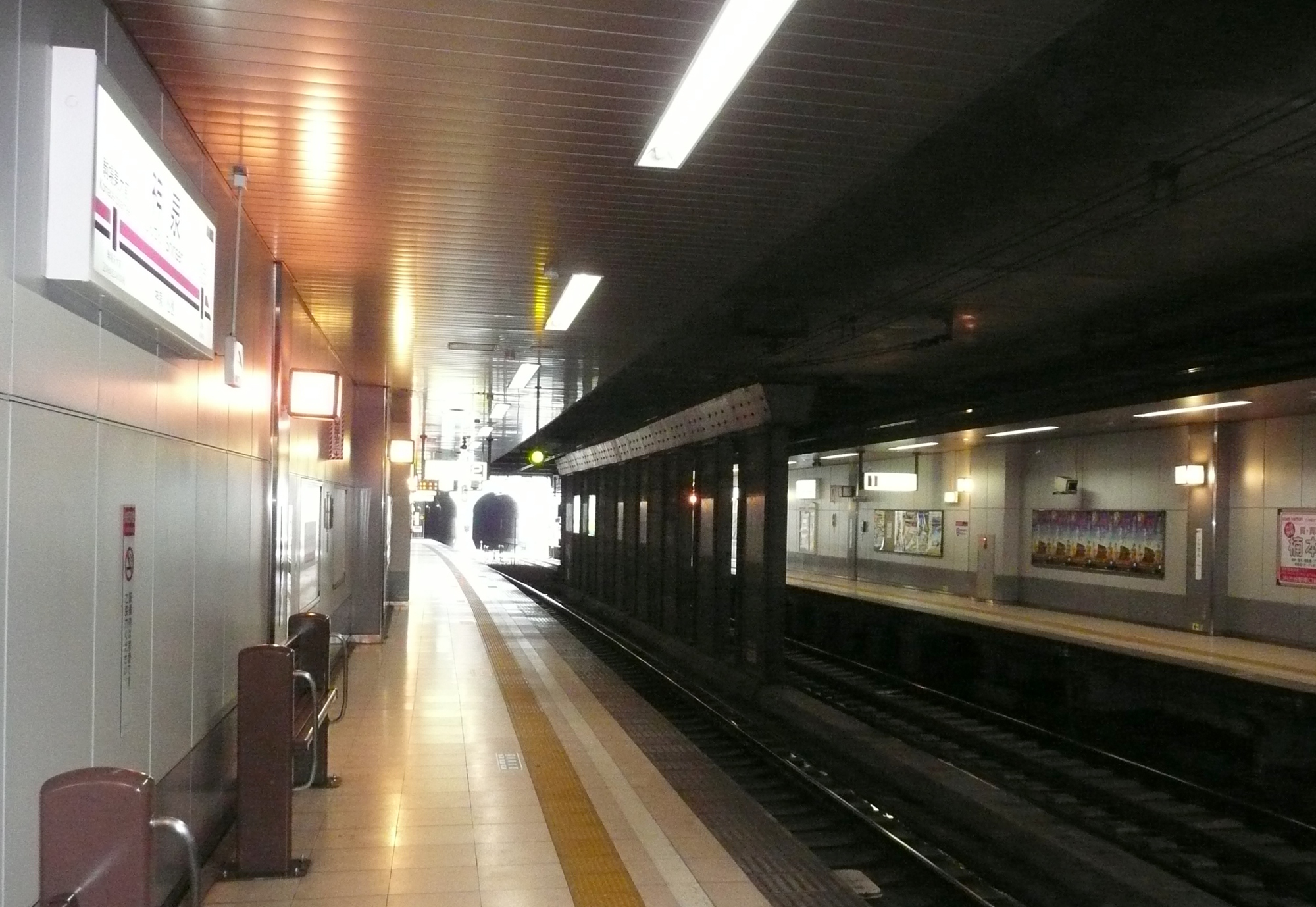 Platforms of Shinsen Station